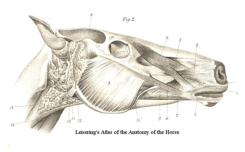 Illustration from Atlas der Anatomie des Pferdes by August Gottlob Theodor Leisering in 1888. Showing the muscles of the head of a horse